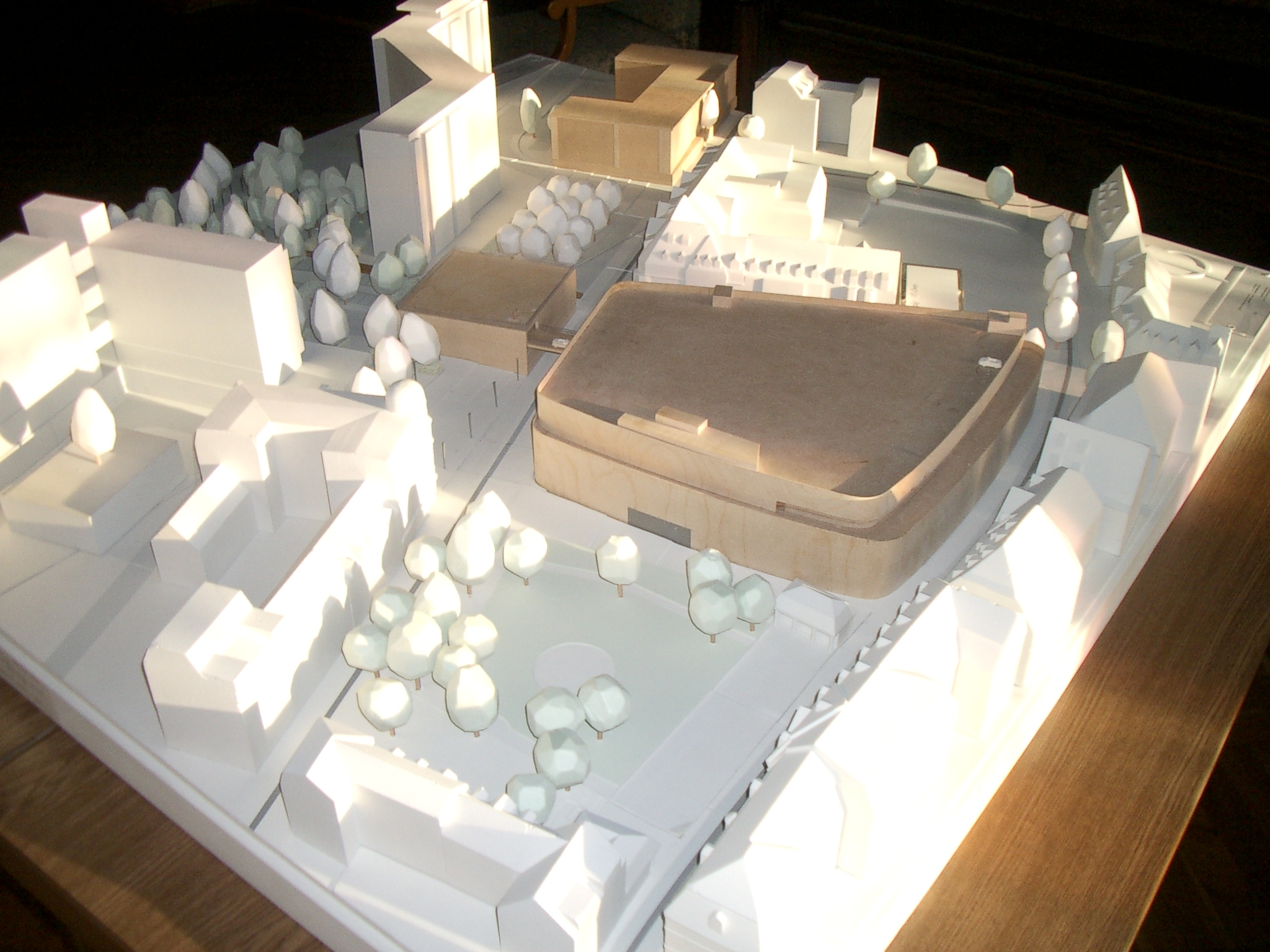 In 2005 planned Kauf- und Parkhaus in Erfurt, Thuringia